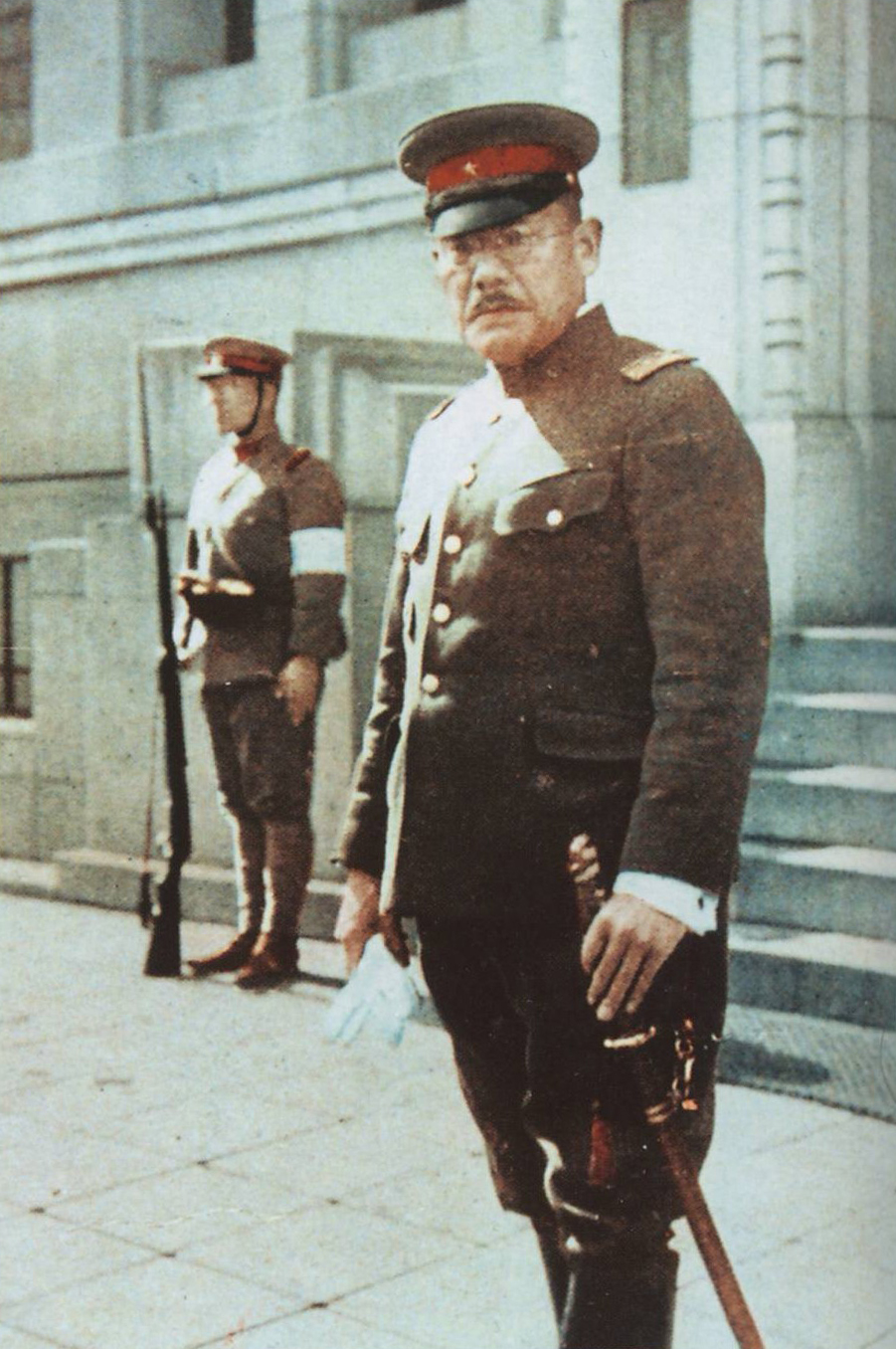 Kashii Kōhei, commander of the Tokyo garrison and Martial Law HQ during the 2/26 Incident.